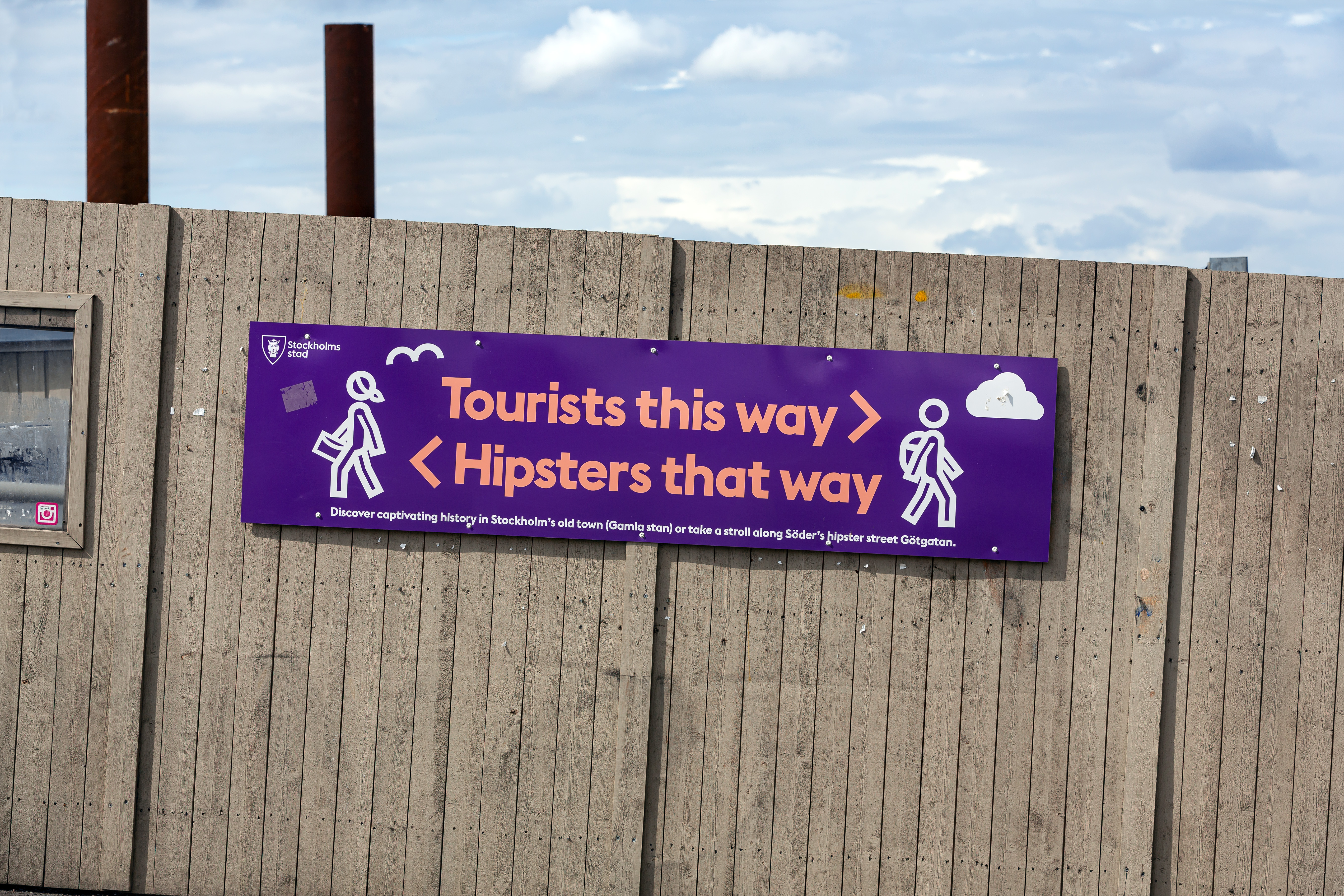 A hint for visitors of Stockholm at the construction site of Nya Slussen: Götgatan on Södermalm to the left, Gamla stan to the right.